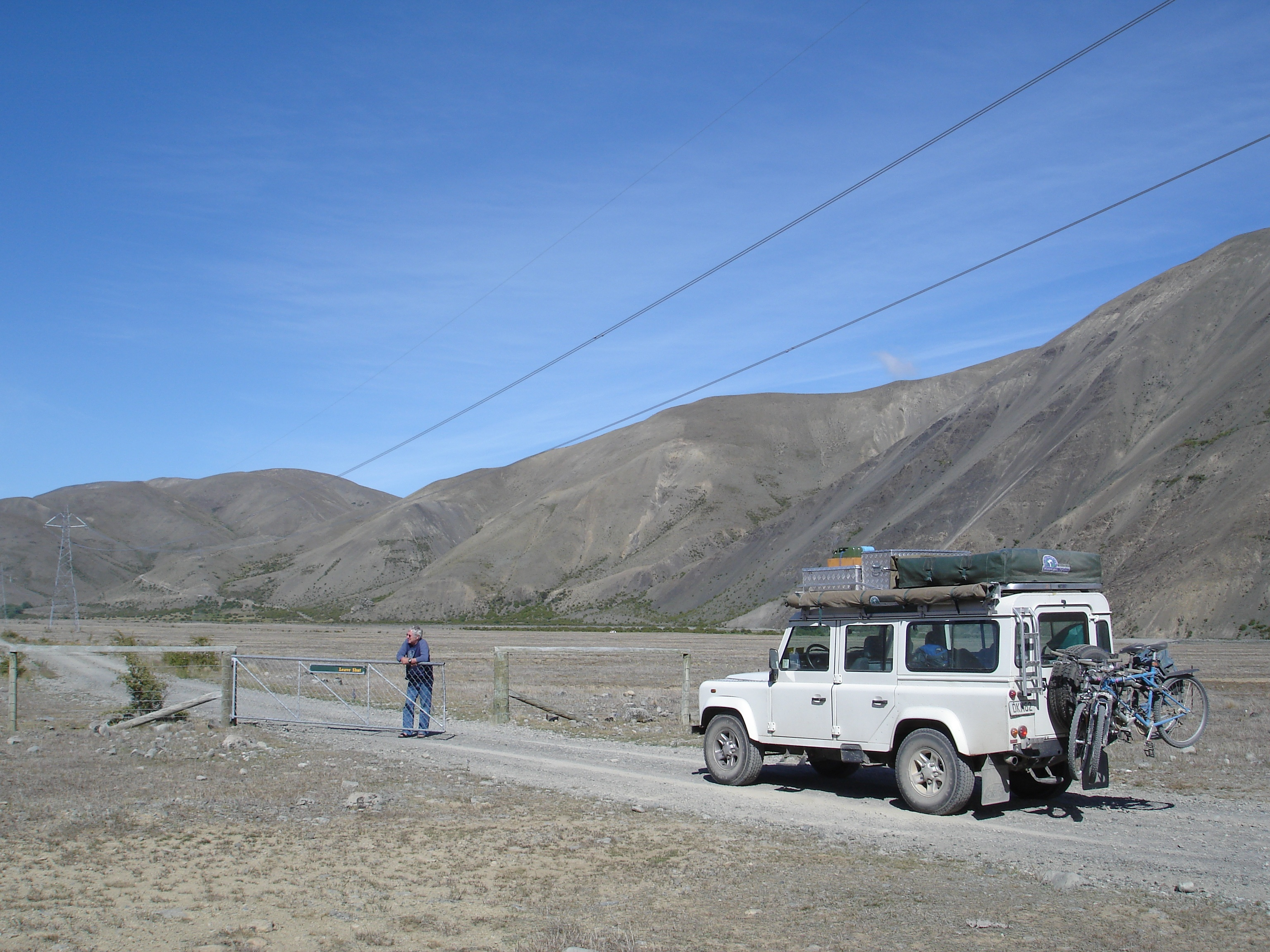 Molesworth Station Rd - 001 [Note that coordinates imported from Flickr seem to be off by at least some distance].